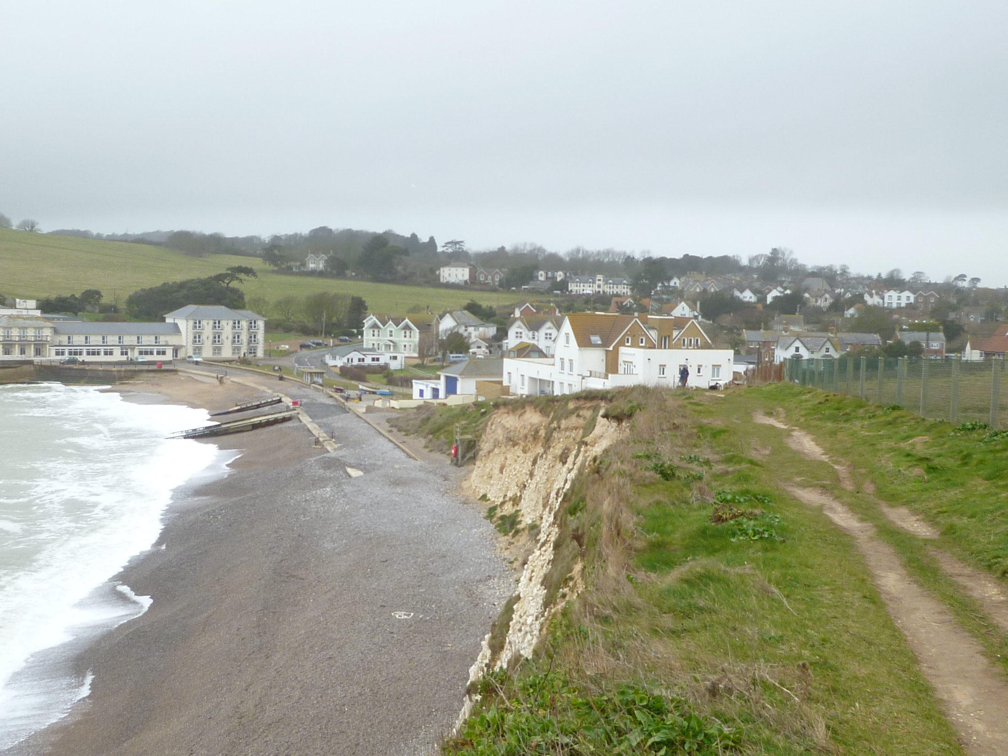 Freshwater Bay, Isle of Wight, in a heavy storm.